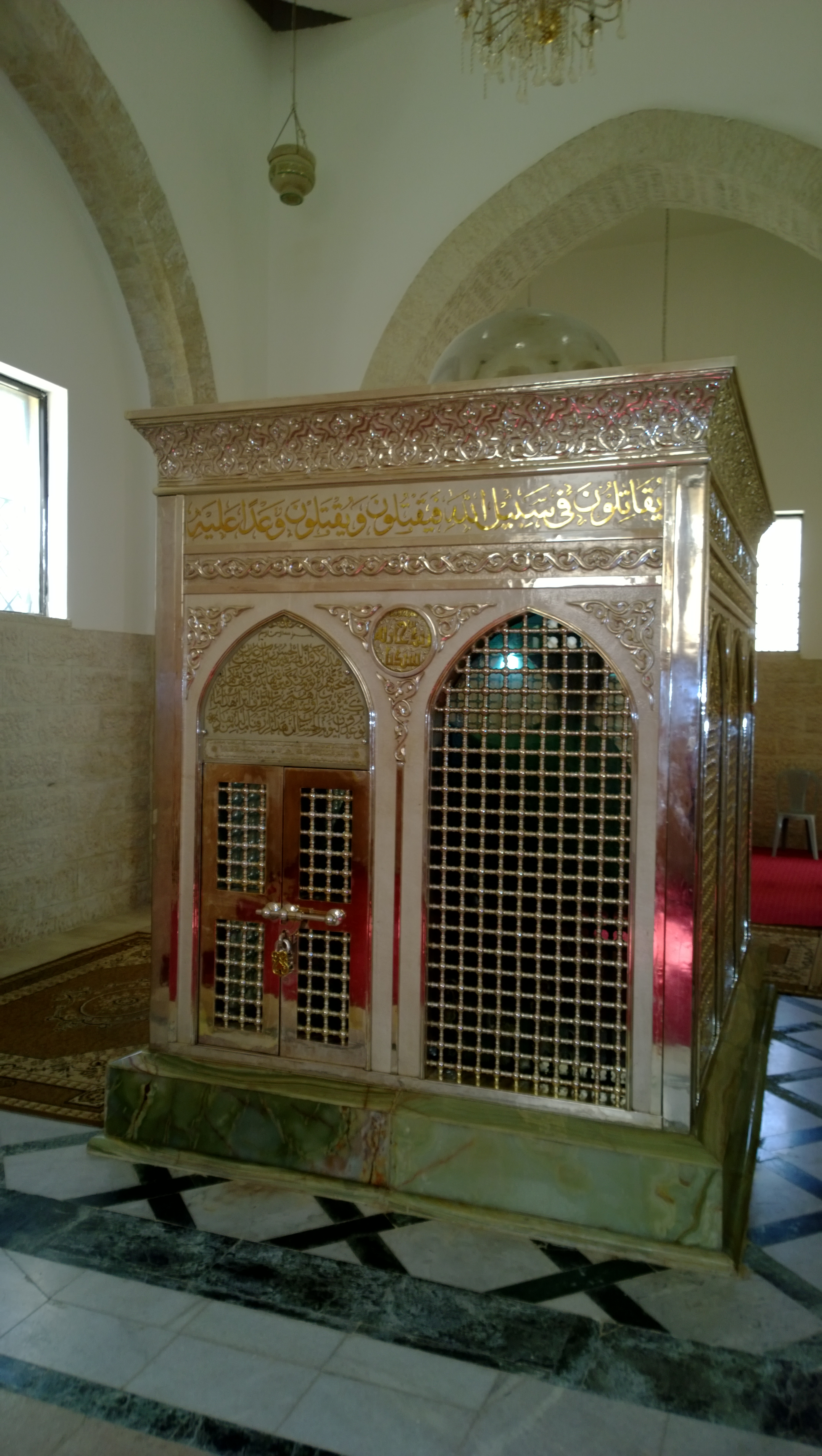 Grave of Syedina Zayd ibn Harithah. He was martyred at the battle of Mu’tah